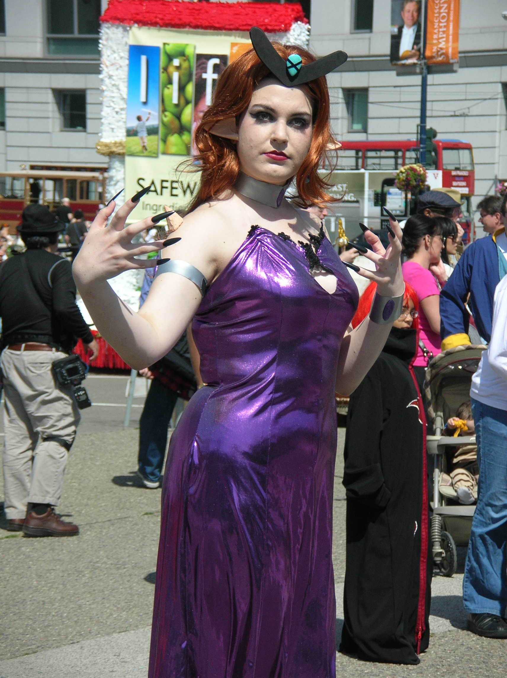 A cosplayer portraying Queen Beryl from Sailor Moon competing in the costume contest at the Northern California Cherry Blossom Festival.